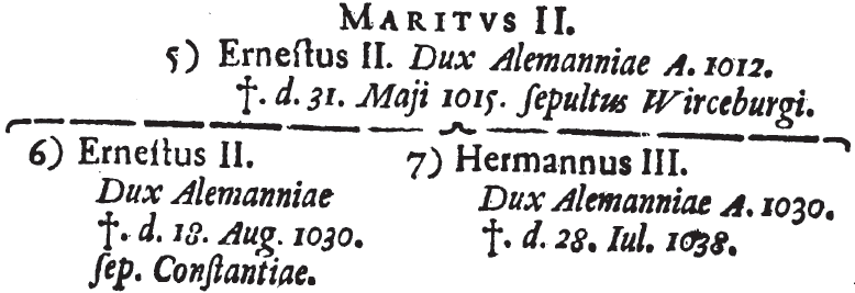 Excerpt from the table attached to p.10 of: Johann David Köhler: Dissertatio genealogica De familia Augusta Franconica, Altdorfii, 1722 (Bavarian State Library, Munich, Germany, Signatur 4 Geneal. 27 m). Showing an early example of the use of U+271D latin cross to mark the death date of a person. (For this purpose, today the similar U+2020 dagger is used commonly in German texts.)